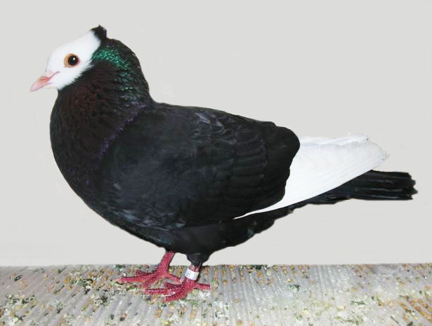 Rhine Ringbeater (Black White Flight)